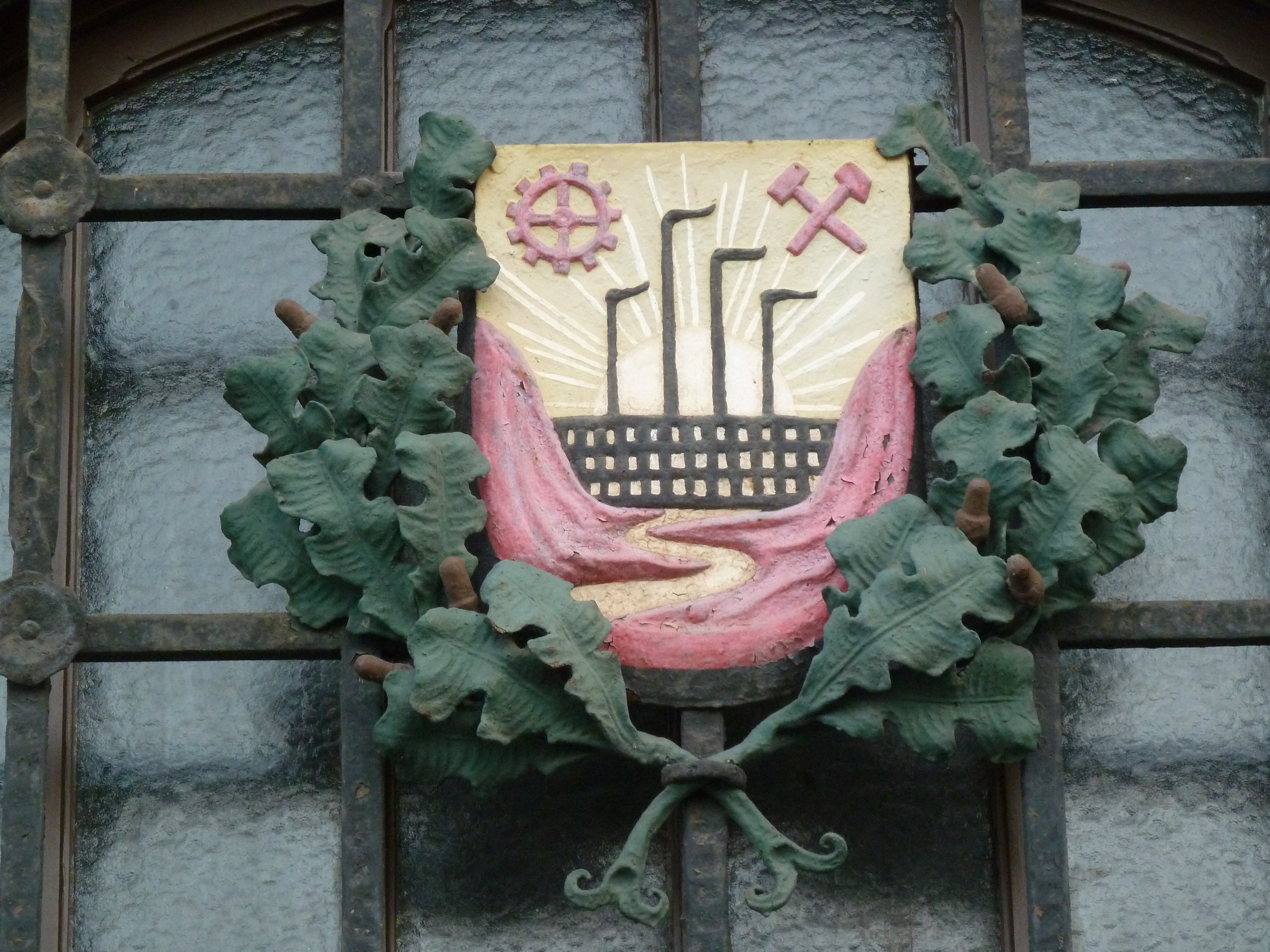 First coat of arms of Freital 1922—1938 on the building of the former school for commerce and trade since 1924; The building is erected according to the Plans of Rudolf Bitzan. It accommodates the local health insurance Office. Dresdener Strasse 205.